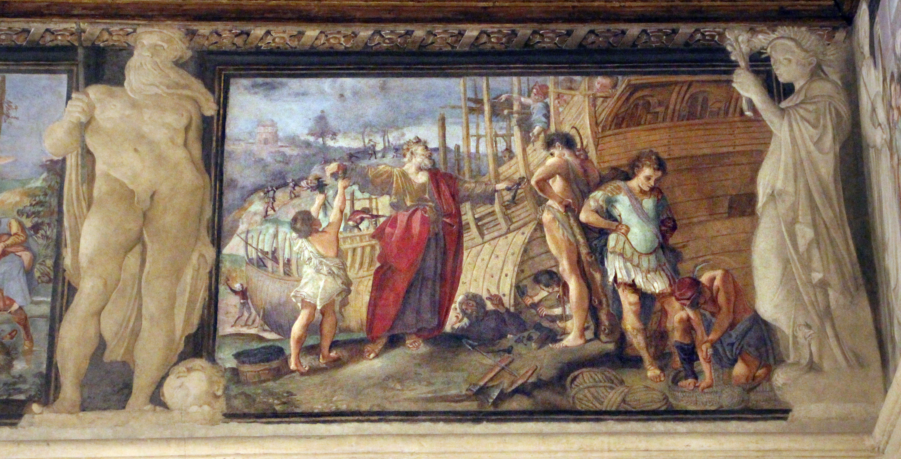 Frieze of Jason and Medea